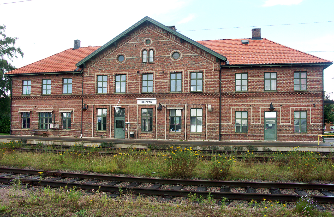 Klippan railway station (est. 1875) in a small town named Klippan in Scania, Sweden. Placed at the railway line Helsingborg-Hassleholm.